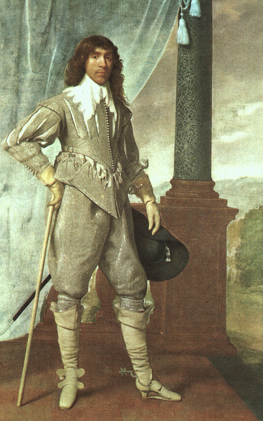 James Hamilton, 1. Duke of Hamilton (1606–1649), Scottish nobleman